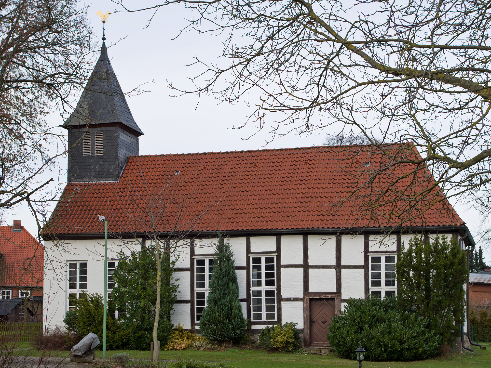 Church of the small village Gülden (district Lüchow-Dannenberg, northern Germany).